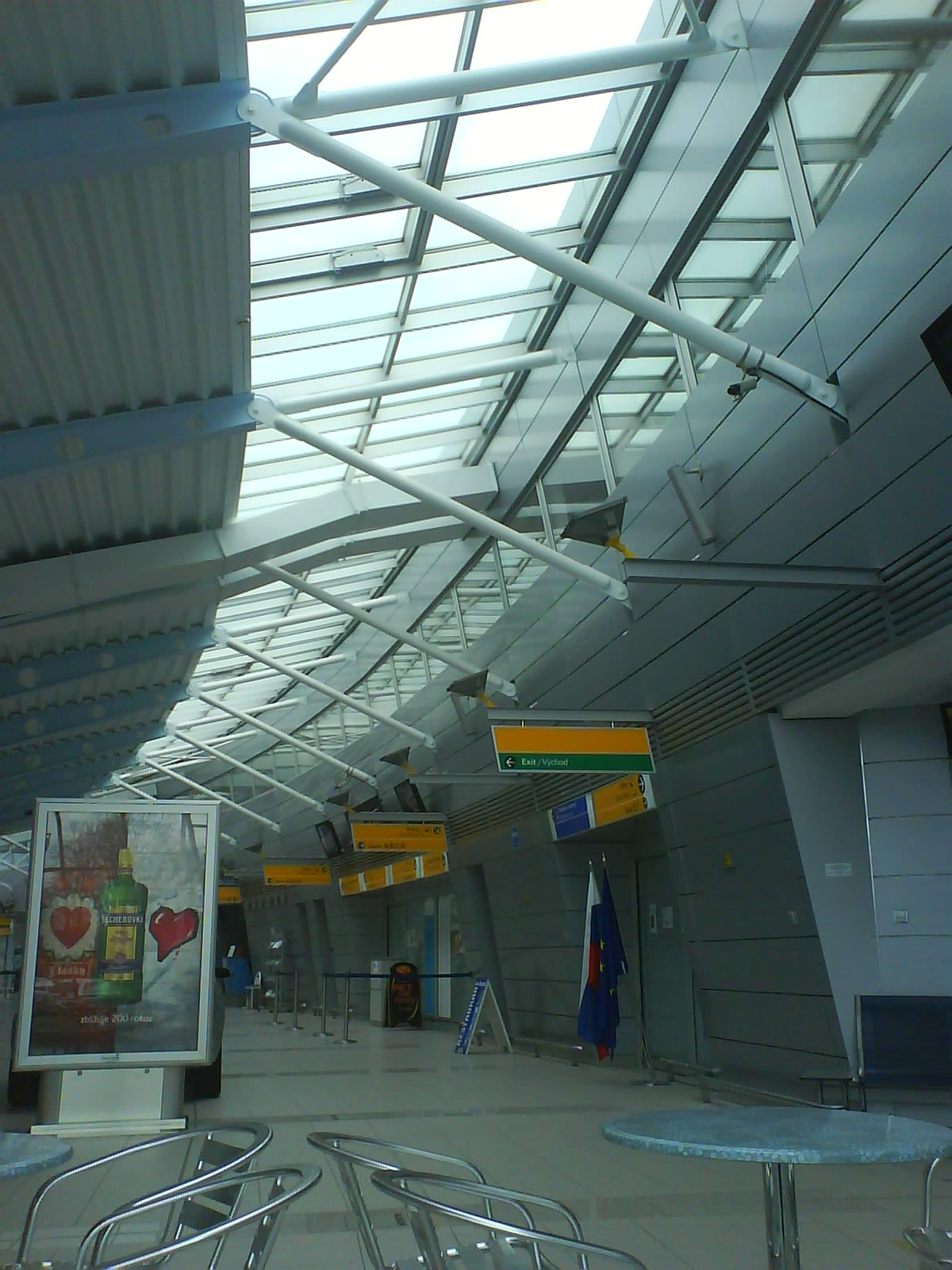 Interior view of Košice (Slovakia) Airport new terminal